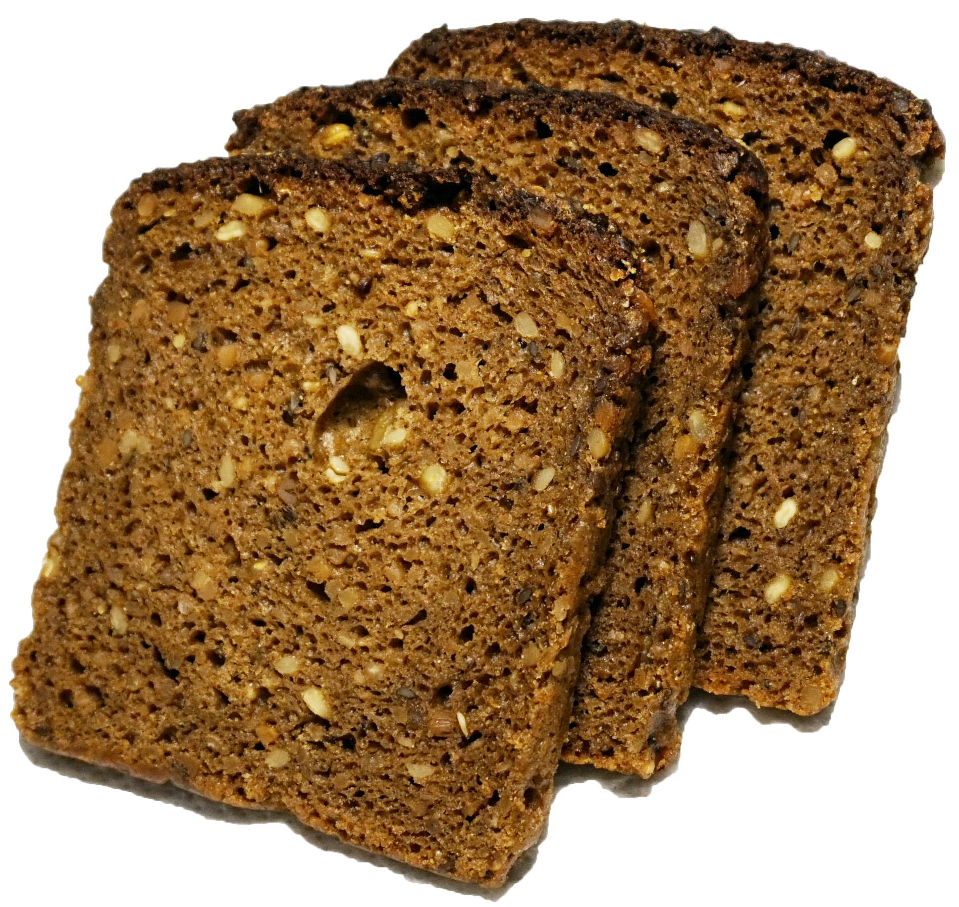 Full grain rye bread slices by Vaasan.